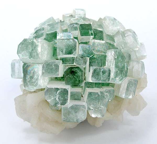 Apophyllite-(KF) Locality: Rahuri, Ahmadnagar District (Ahmednagar District; Ahmed Nagar District), Maharashtra, India (Locality at ) Size: 6.8 x 5.9 x 4.5 cm. A stunning radial cluster of cubically-tipped apophyllite crystals, from a now infamous find of 2001. Simply cannot get them on the market, any more! These have a special place in the midst of other Indian minerals and some people call them disco balls for good reason. They sparkle incredibly in person. This cluster is about 2% the radius of a sphere, certainly complete on the front display face and radially to the top of the viewing face. Ex. Charlie Key Collection.